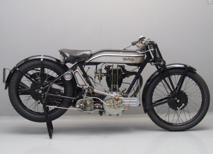 Norton Model 18 500cc motorcycle from 1927